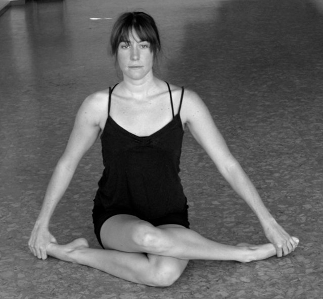 Model is seated cross-legged, with knees lined up one on top of the other.